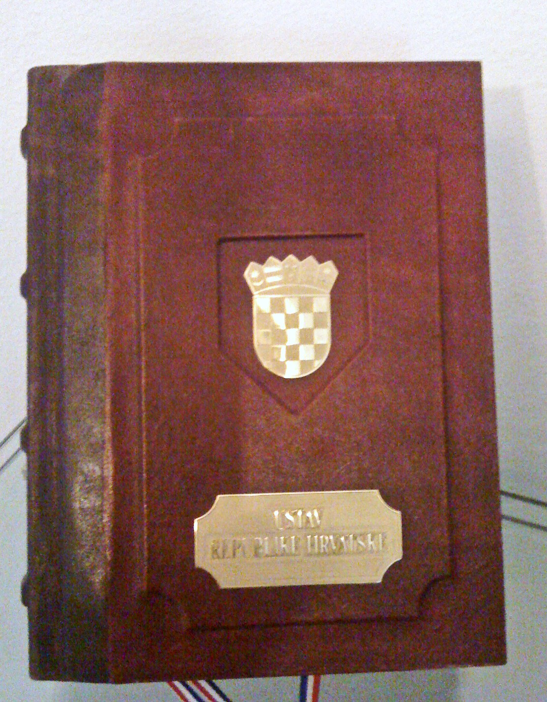 Constitution of the Republic of Croatia, which is kept in the lobby of the Constitutional Court of the Republic of Croatia